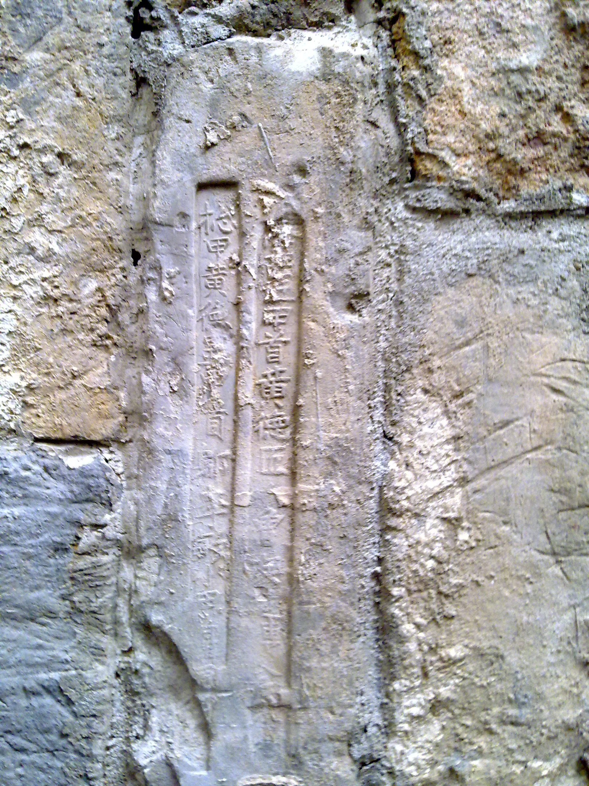 Bricks of the Wumen Gate of Nanjing Ming Palace